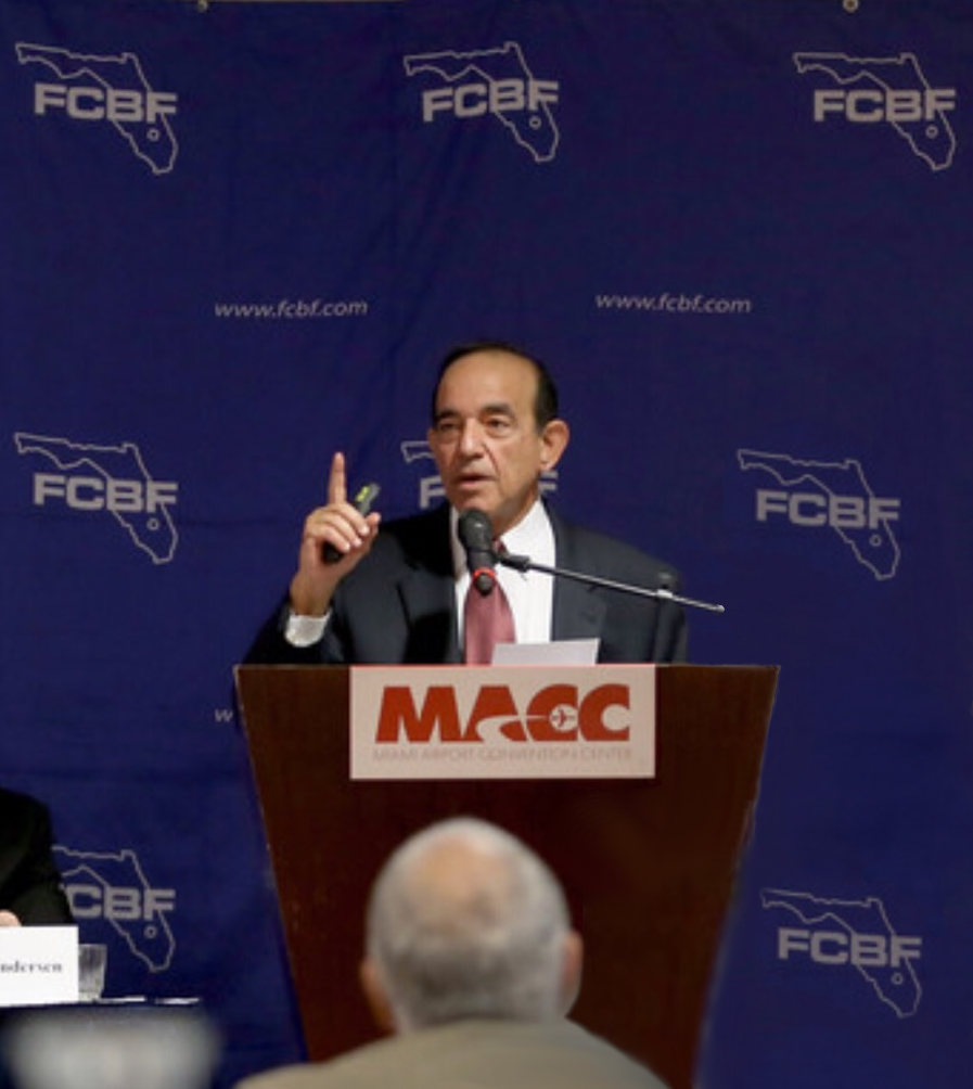 Teo Babun in a January 2017 Conference